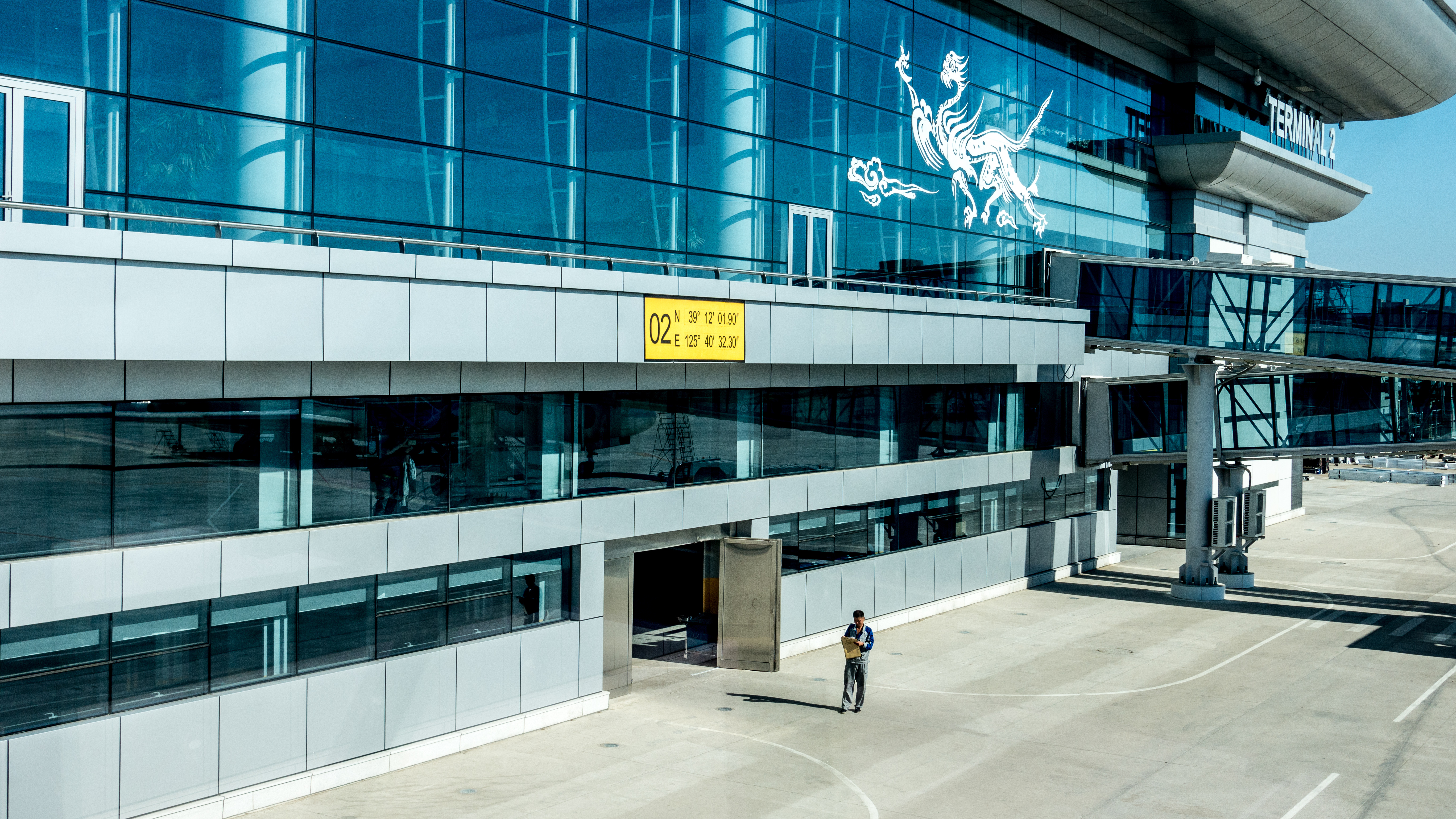 New terminal at Sunan International Airport, Pyongyang, North Korea